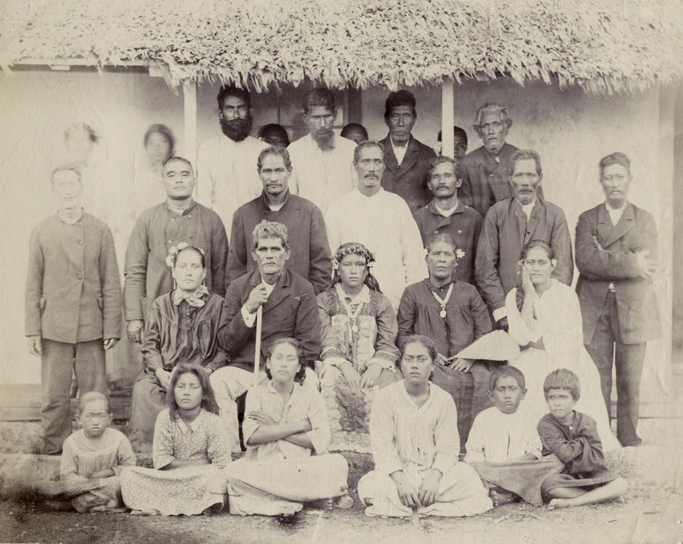 Royal family and chiefs of Rimatara in 1889. The young Queen, the Regent and the principal personage of Rimatara. (Coll. Ch. Gleizal).